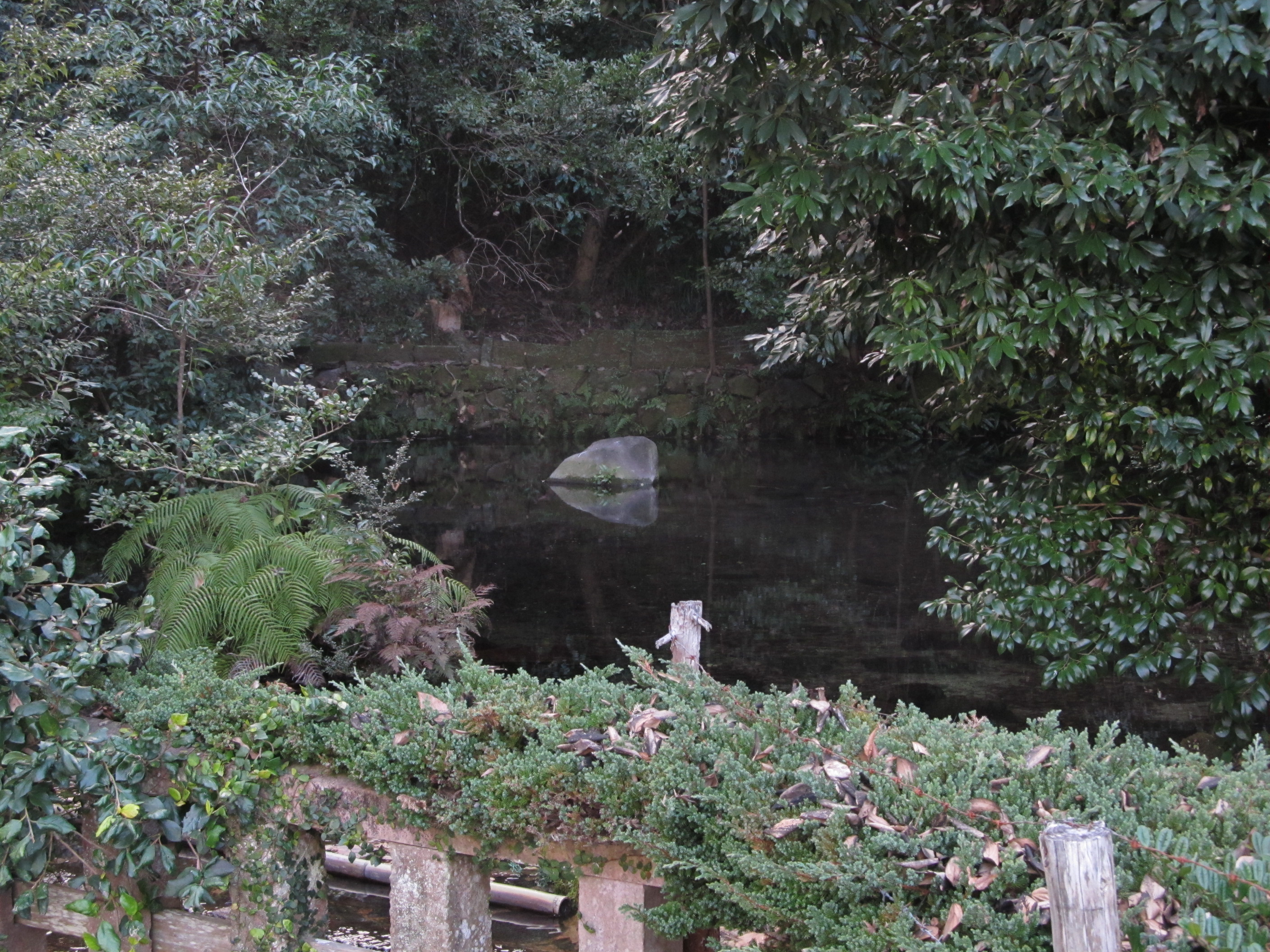 Source of Todoroki Springs.